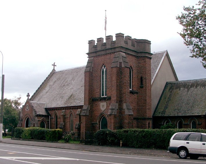 St. Peter's Anglican Church, Caversham, New Zealand. Photo by James Dignan (User: Grutness), March 27, 2009.